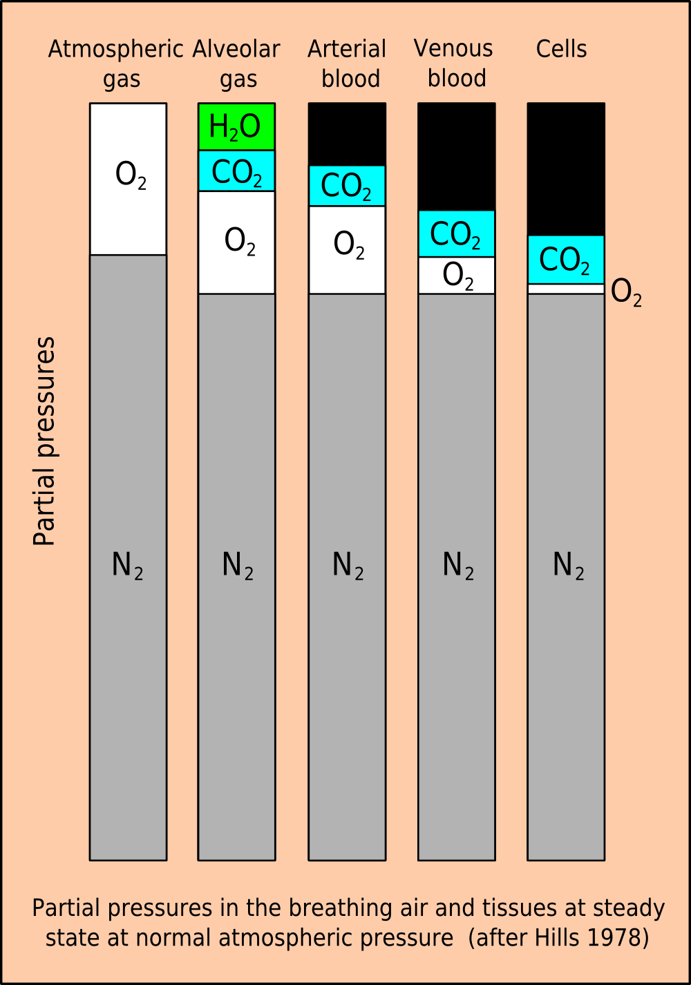 Bar graph showing partial pressure of gases in breathing air and dissolved in body tissues at steady state at normal atmospheric pressure, showing the saturation deficit in the tissues due to metabolic processes.